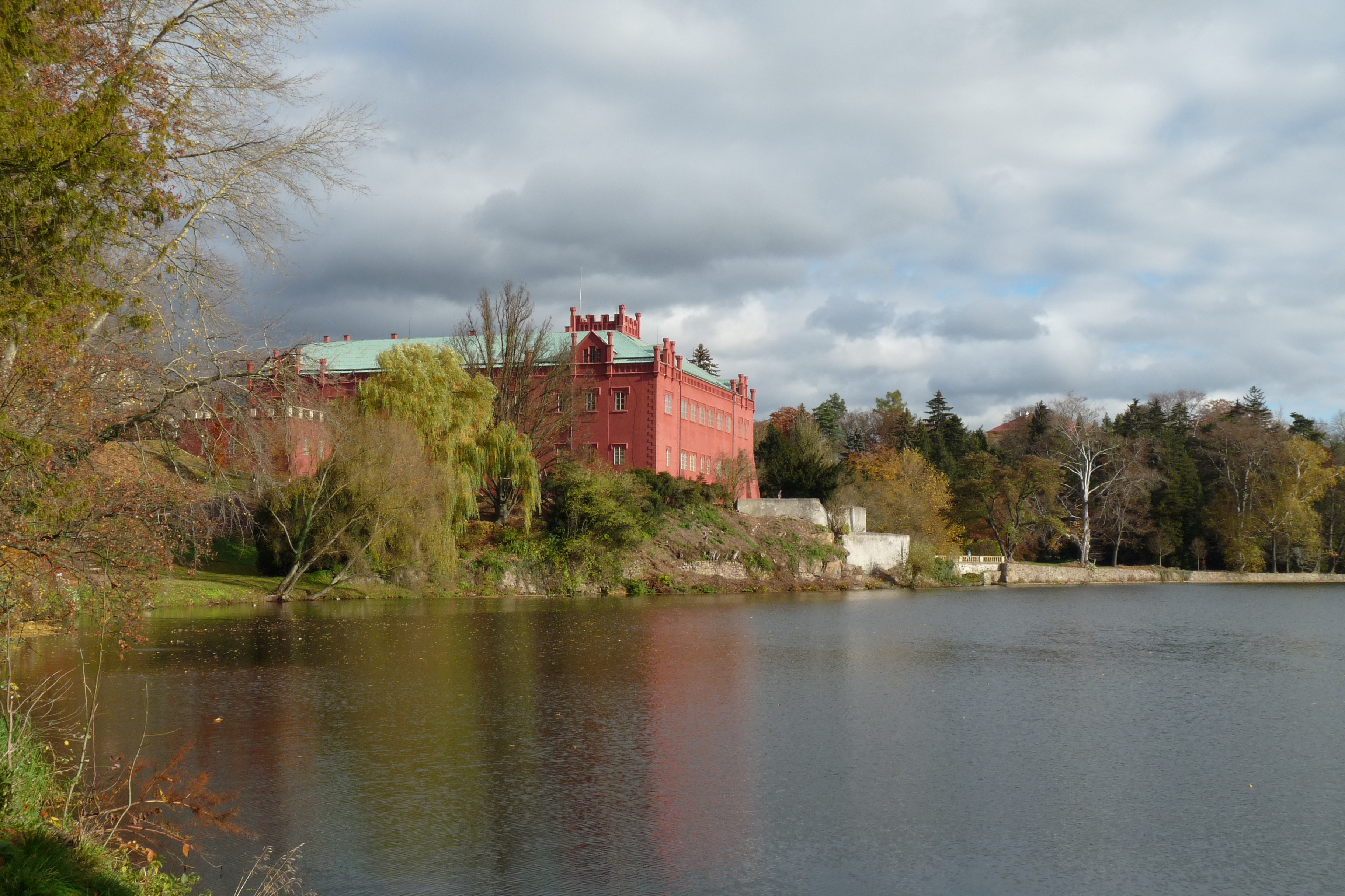 Chateau in the town of Klášterec nad Ohří, Chomutov District, Ústí nad labem Region, Czech Republic, as seen across the Ohře River.